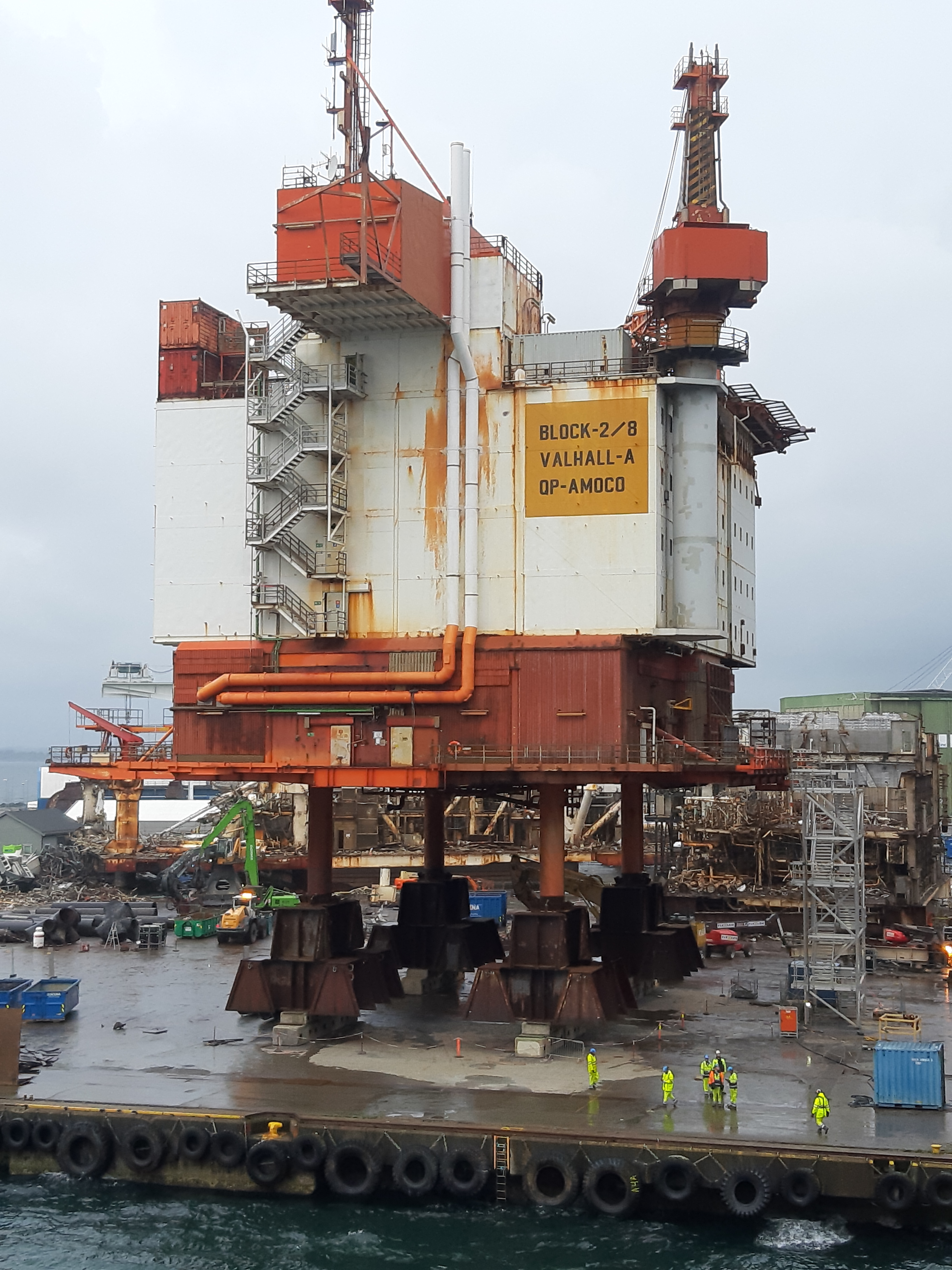 Accomodation platform of the VALHALL-A oil field at the Norwegian demolition yard in Leirvik, 2019-08-30. Full view